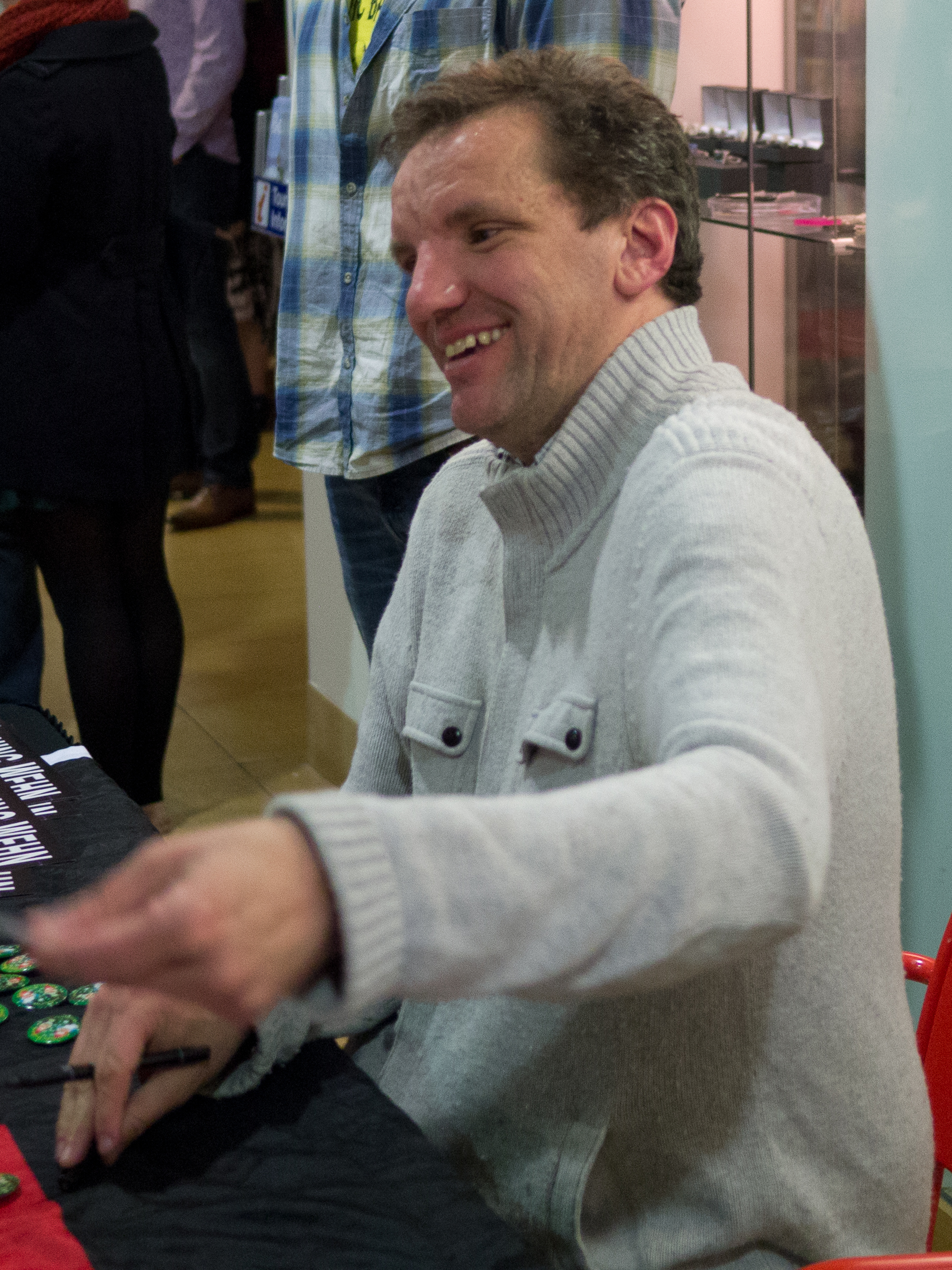 Henning Wehn doing some post-performance product sales and signings in Bexhill-on-Sea. Cropped.